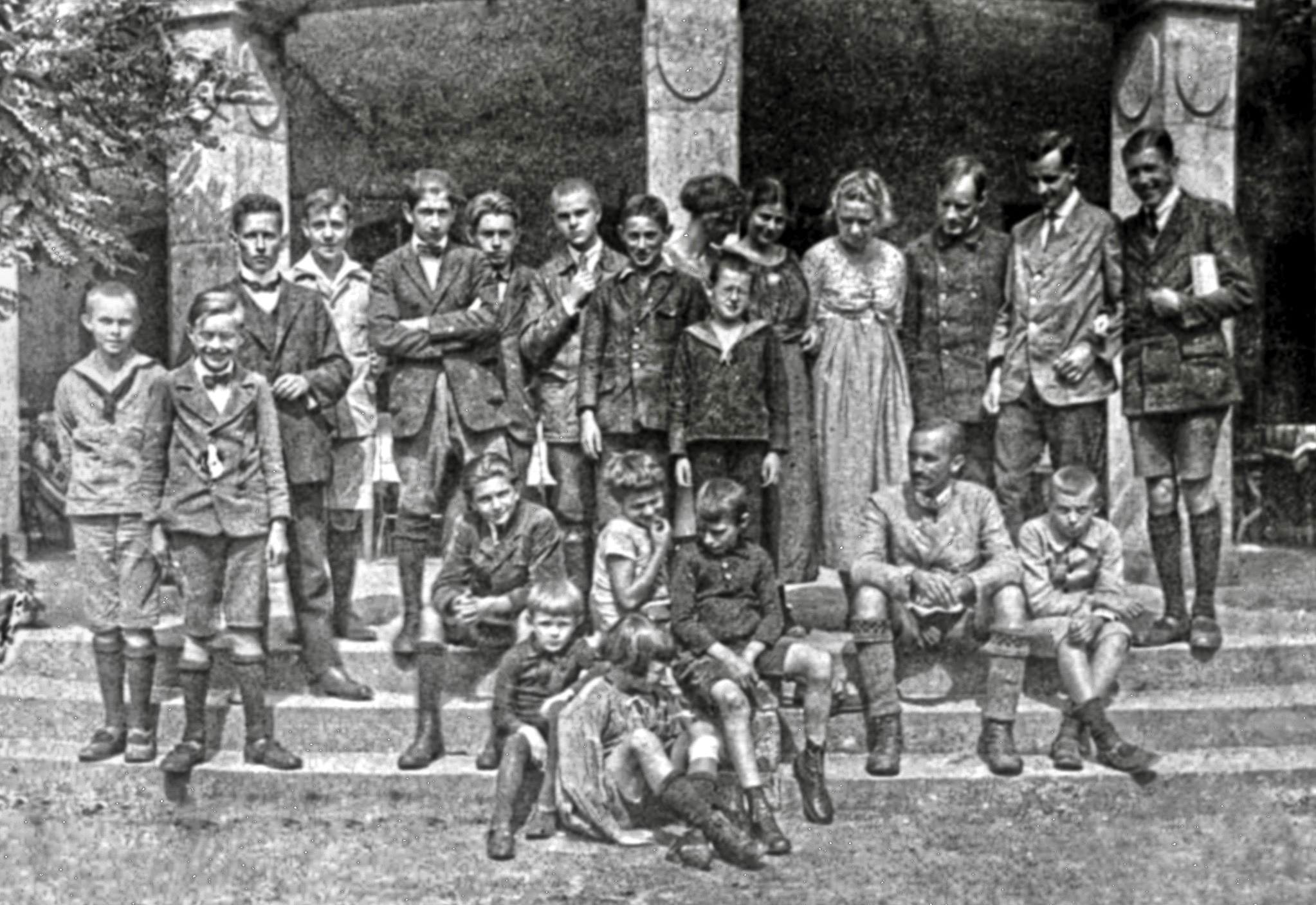 Pupils and teachers of Freie Schul- und Werkgemeinschaft Sinntalhof (not to mistake with Freie Schul- und Werkgemeinschaft by Bernhard Uffrecht which operated shortly before at the very same location but moved away to Dreilinden, Brandenburg, Prussia) at Sinntalhof near Brückenau, Lower Franconia, Germany. In the upper row from the right to the left are: Ernst Putz (1896–1933), Jürgen Alexander Justus Diederichs (1901–1976), Max Bondy (1892–1951), Martha Philips (1896–1956), Gertrud Bondy (1889–1977). The amount of pupils implies the back dating of this picture. In Oct 1920 the school's classes started with only four pupils. One year later there were 14 pupils and 29 in total in 1922/23. On this picture 15 pupils and 7 adults can be counted.